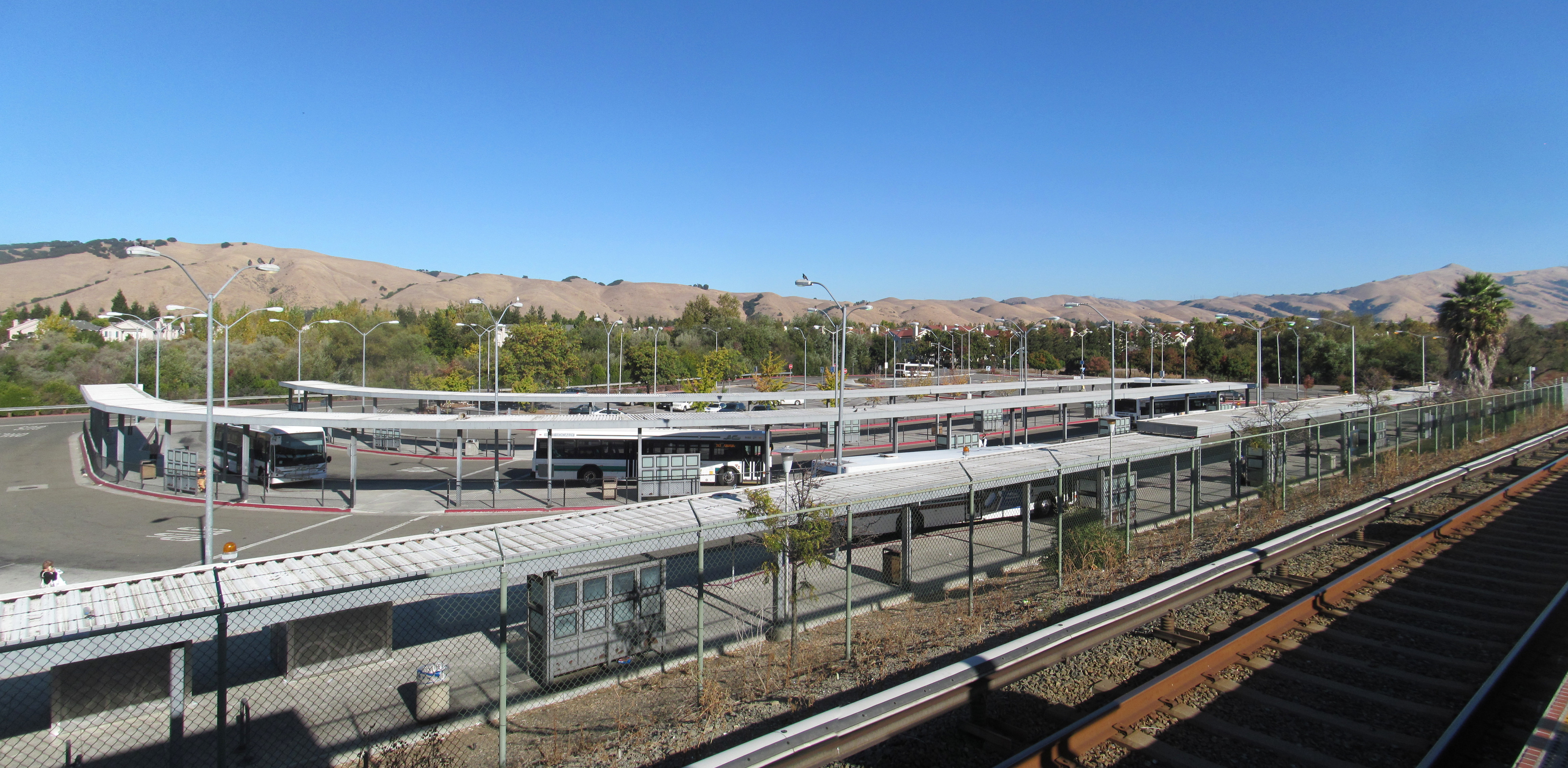 Bus bays at Fremont station in October 2017